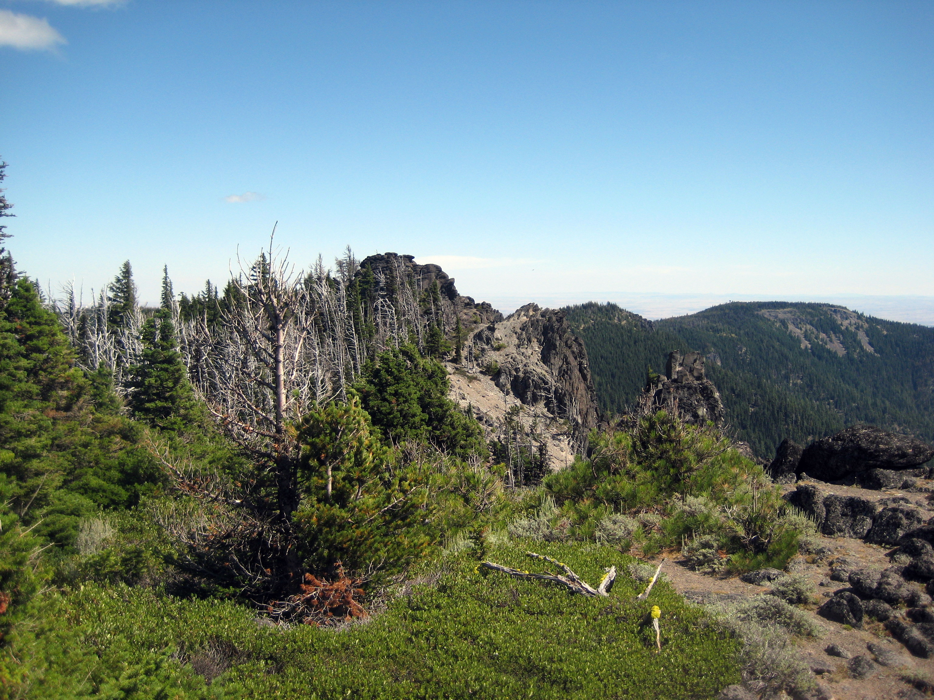 Along the divide east-southeast of Lookout Mountain in the Badger Creek Wilderness in the Mount Hood National Forest.